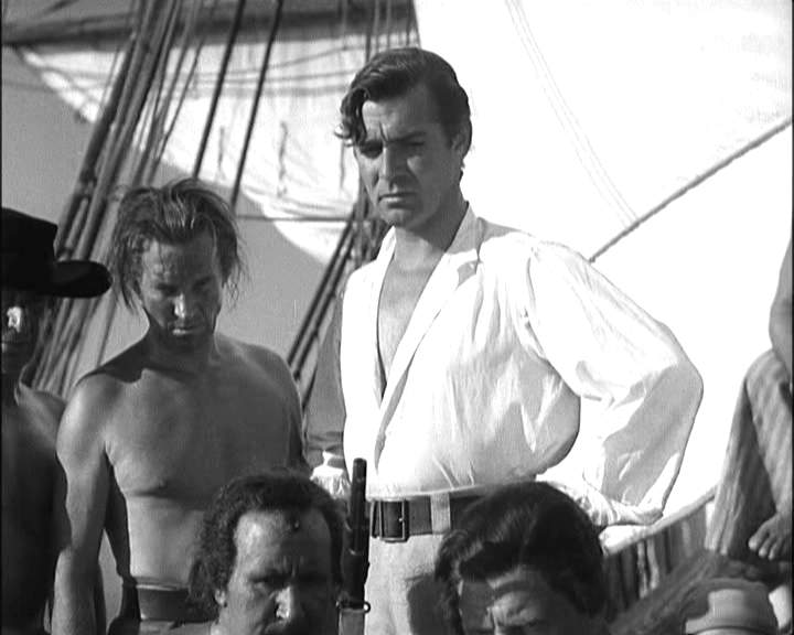 Clark Gable as Fletcher Christian in a screenshot from the trailer for the film Mutiny on the Bounty.